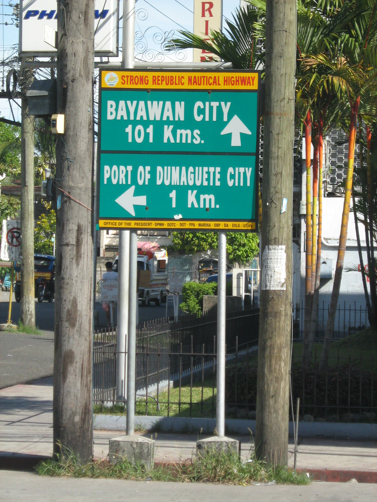 A sign of the Strong Republic Nautical Highway in Dumaguete City